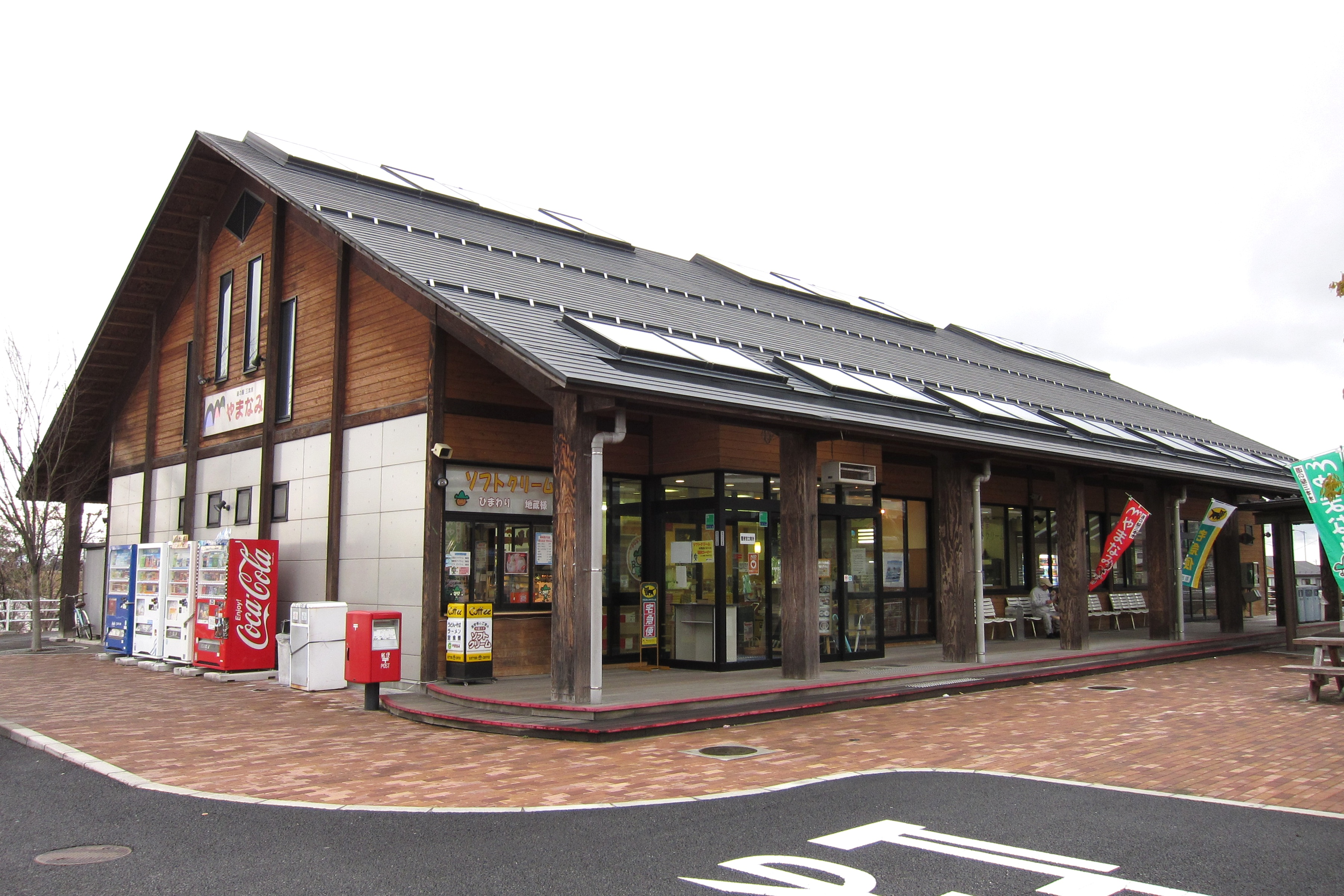 Product center Yamanami at Michinoeki Sanbongi in Osaki City, Miyagi Prefecture